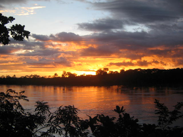 Sunset over the river Guaviare, in San José del Guaviare, Colombia. Esta fotografía fue tomada en el municipio colombiano con código 95001.